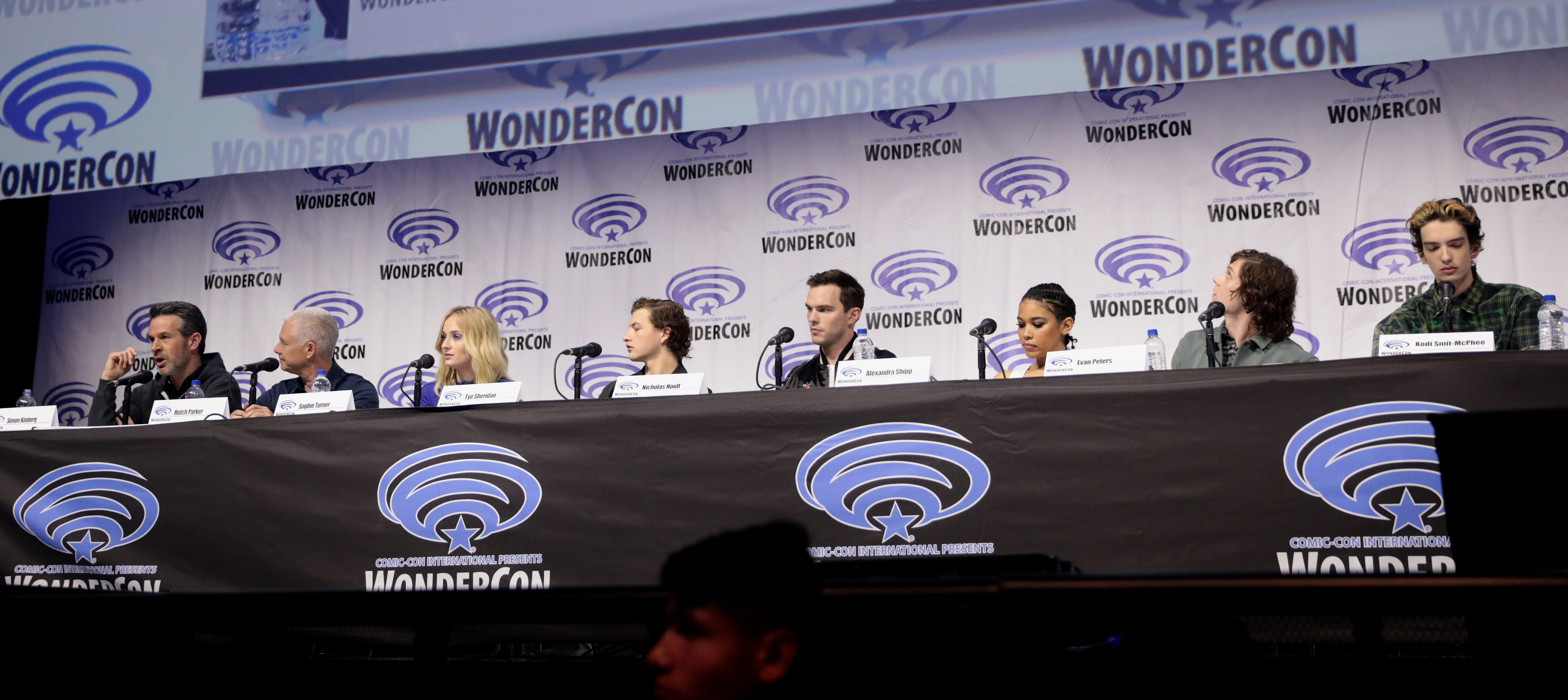 The cast of Dark Phoenix at the 2019 WonderCon in Anaheim, California.